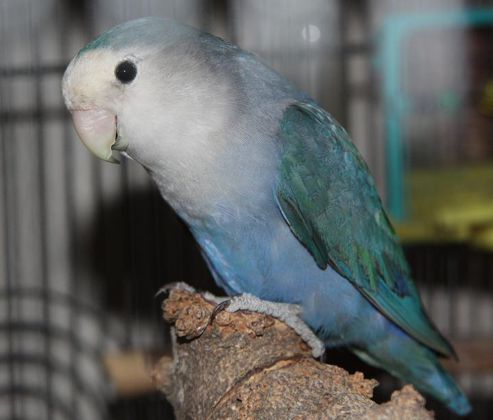 Whitefaced blue rosy-face lovebird.